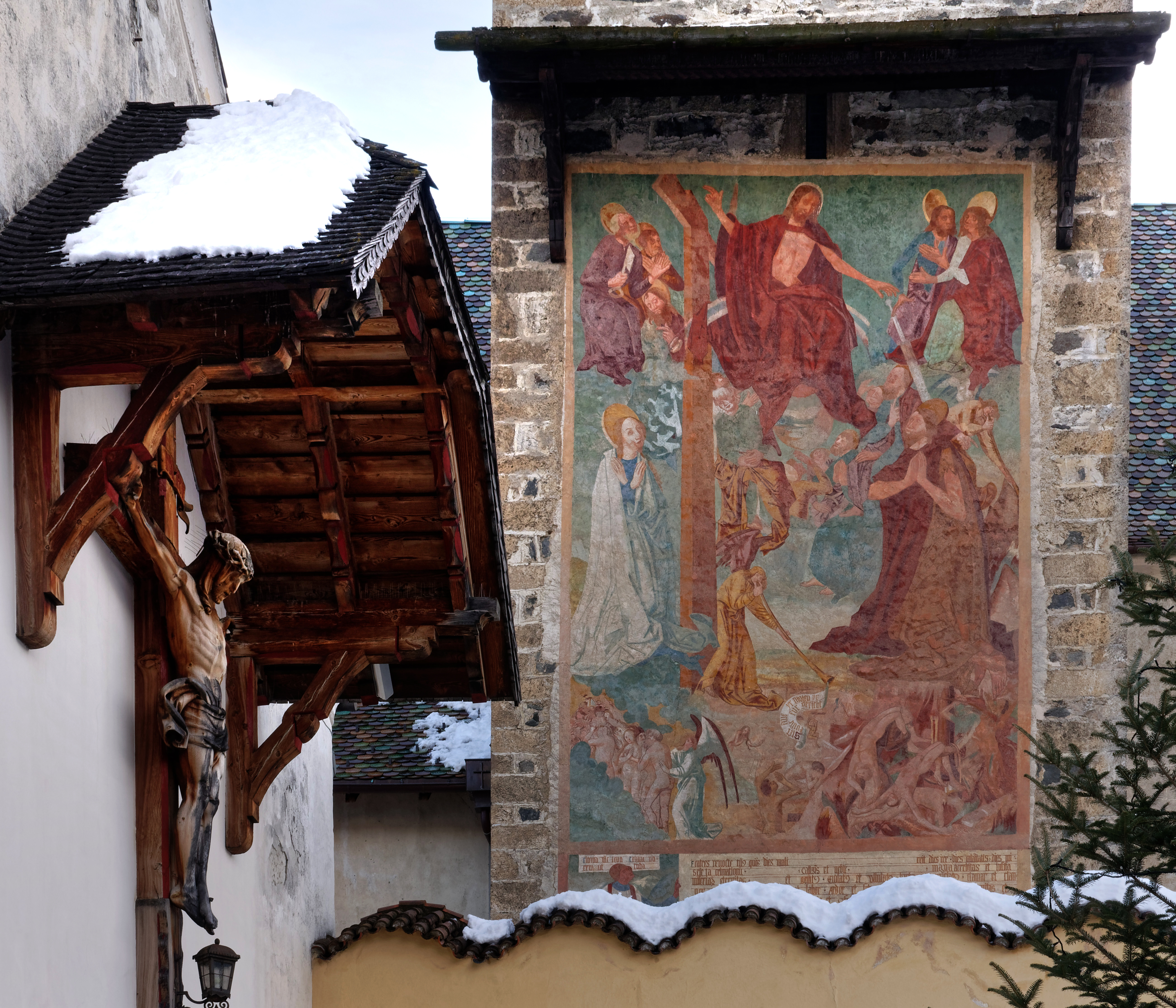 Glurns (South Tyrol) in winter.